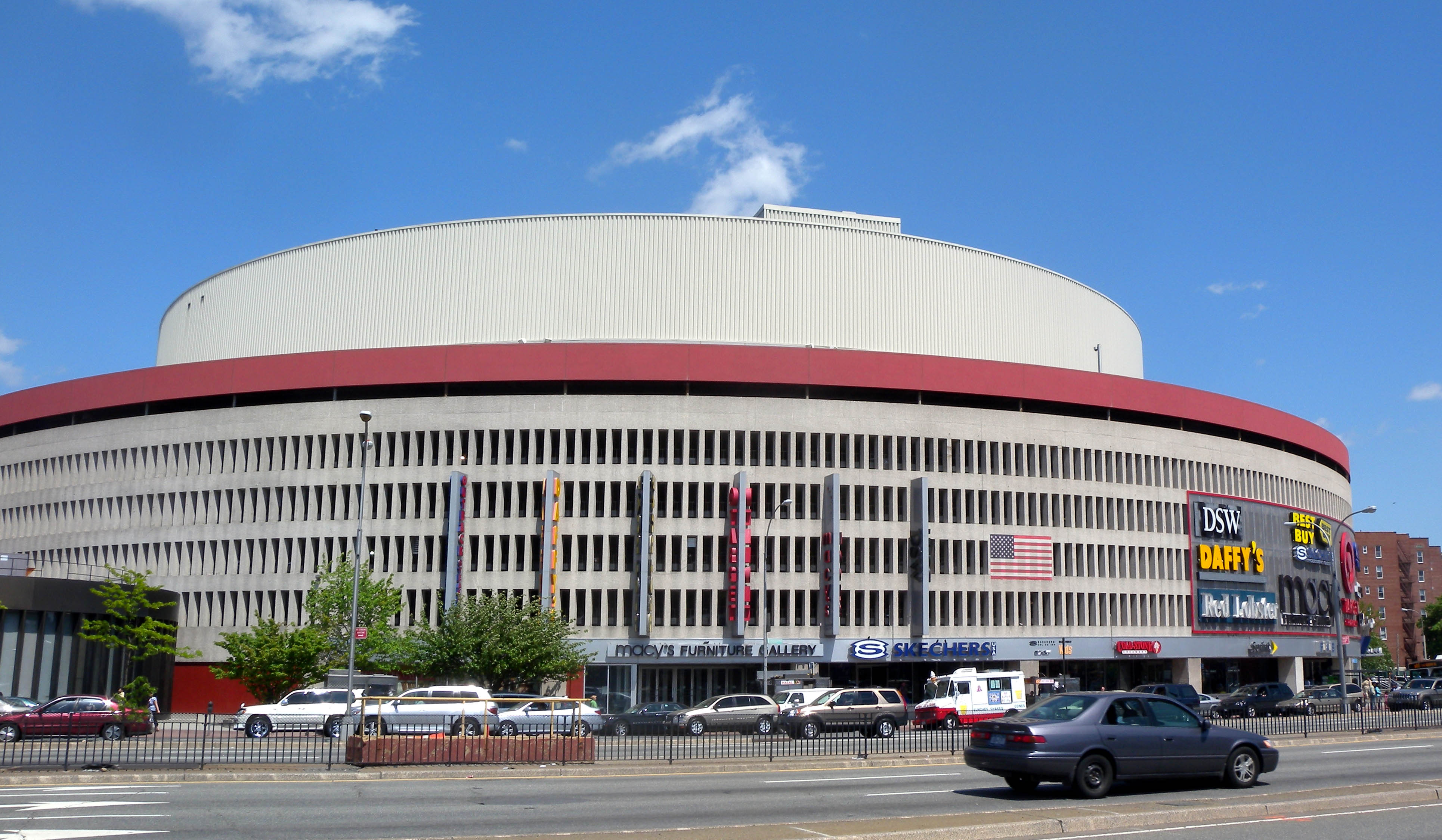 Looking northeast across Queens Boulevard at Queens Place Mall on a sunny midday.